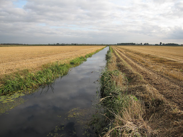 Adventurers' Head Drain Stubble fields either side of the drain, one of many man-made watercourses that drain this area and allow the peaty fenland soil to be used for arable crops. They lead to the River Great Ouse to the south where the water has to be pumped up into the river, which is higher than the surrounding farmland.